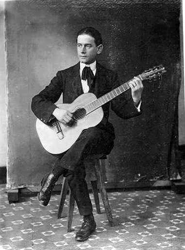 Argentine "payador", José Betinotti.